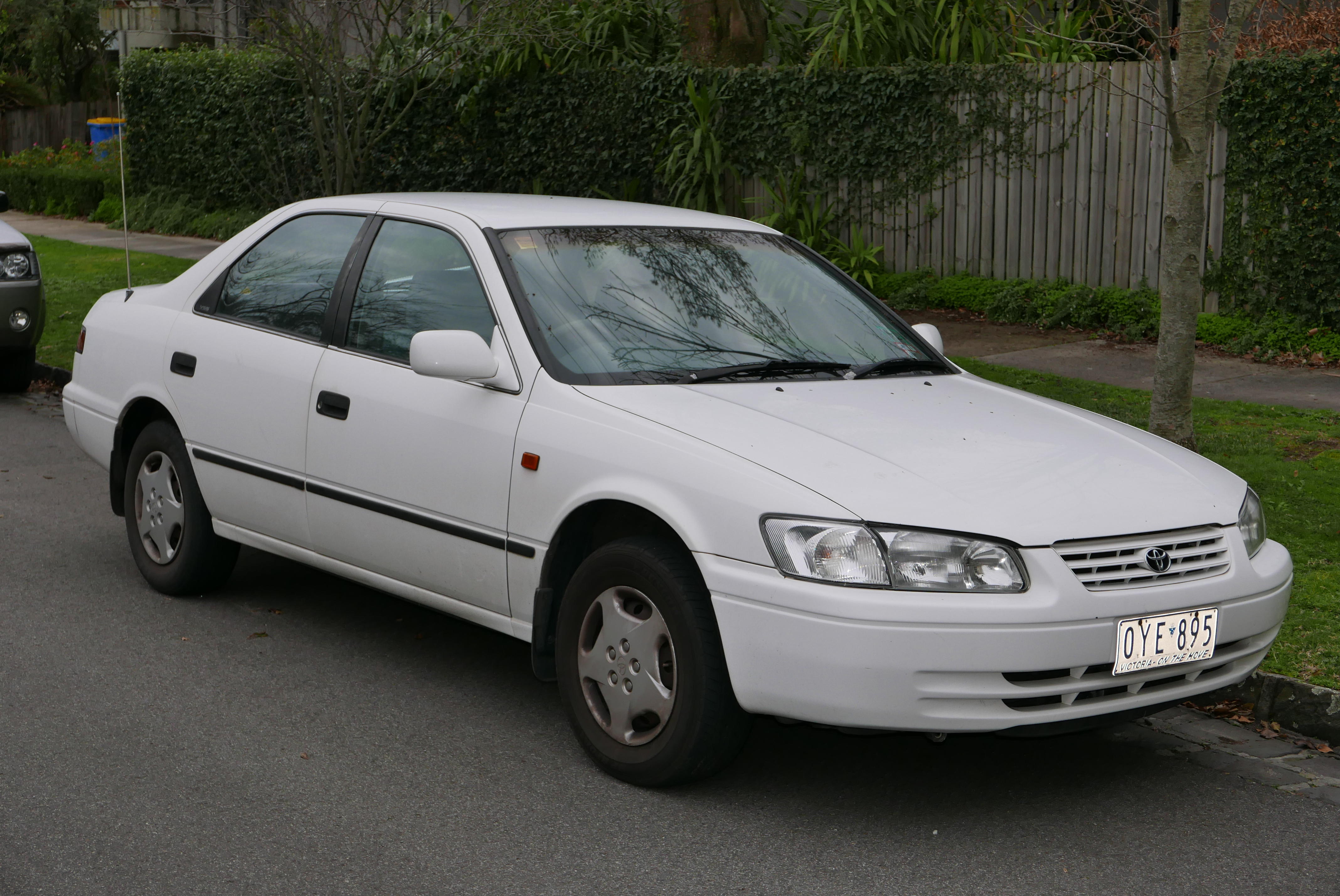 1998 Toyota Camry (SXV20R) CSX sedan. Photographed in Kew, Victoria, Australia. Vehicle registration enquiry results Jurisdiction Victoria Registration OYE895 Chassis code 6T153SK200X019037 Engine code 5S4222507 Compliance date 1998-05 Year of manufacture 1998